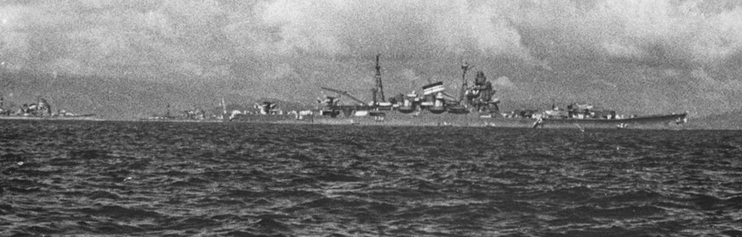 Japanese heavy cruiser Chikuma in Sukumo bay in june 1941.